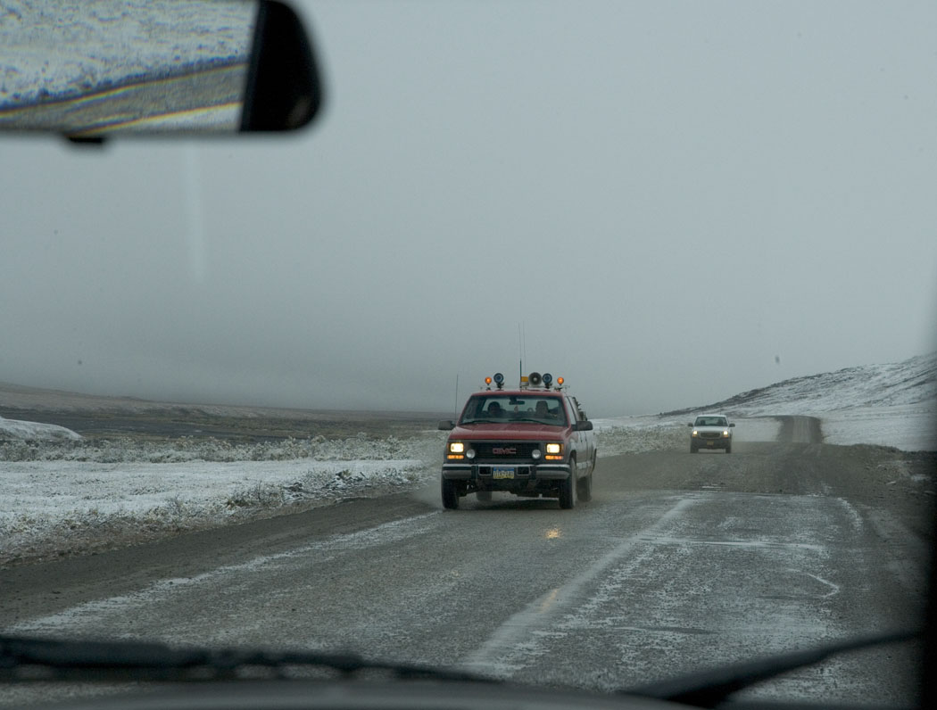 August snow storm on Dalton Highway [1] On-coming traffic on Dalton Highway during an August snowstorm, photographed through the windshield. FWS keywords: Human impacts; Tundra; Terrestrial ecosystems; Snow; Automobiles; Roads; Alaska; KANUTI NATIONAL WILDLIFE REFUGE Source: Alaska Region Library